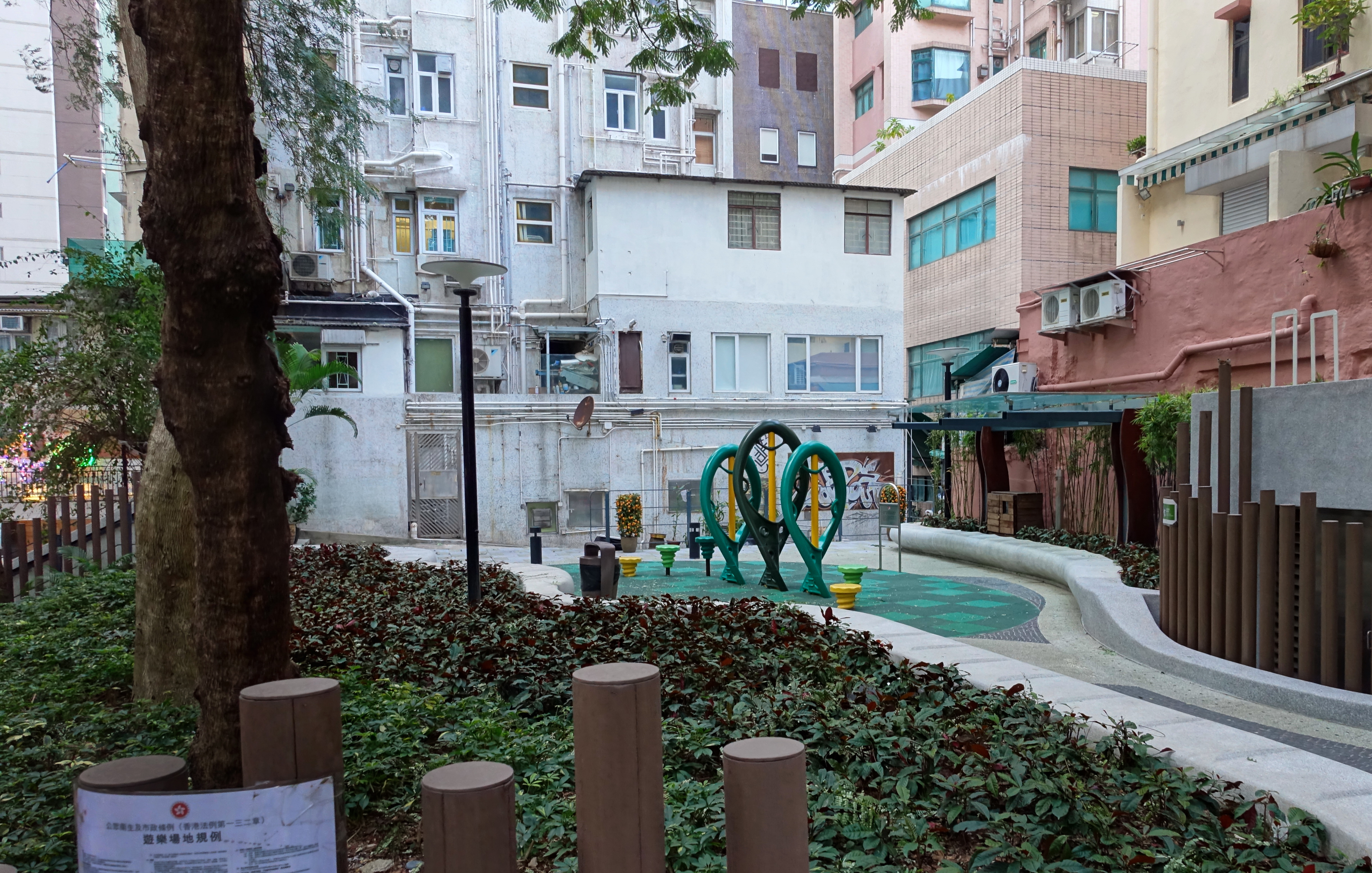 Kwong Ming Street Children's Playground, Wan Chai, Hong Kong.